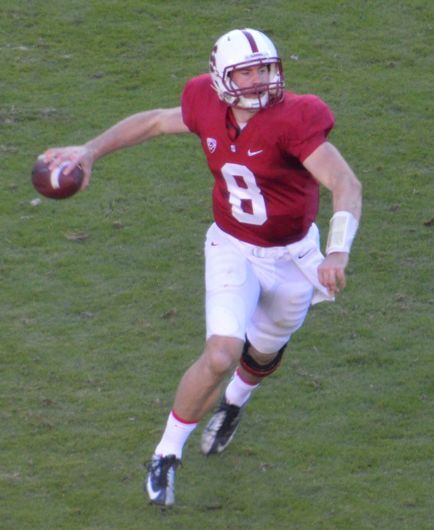 Kevin Hogan, 2013